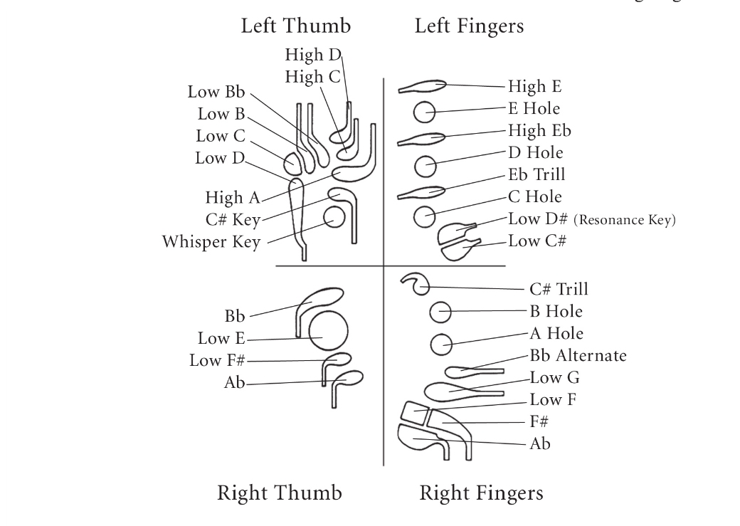 A chart of all the keys on a standard bassoon